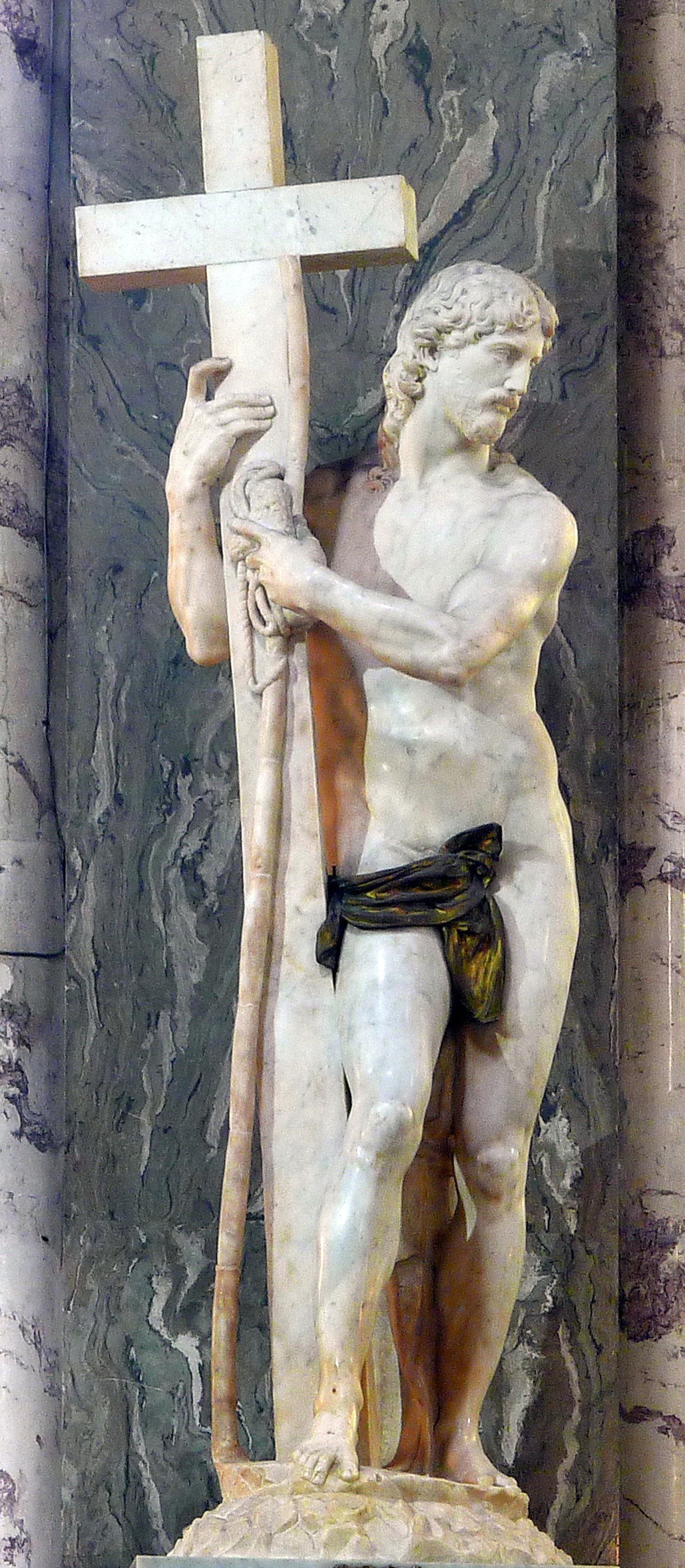 Santa Maria sopra Minerva (Rome); The Risen Christ; Michelangelo